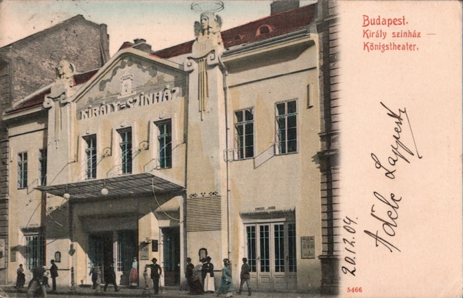 Budapest, Király Színház - Königstheater (address: Király utca 71), postcard sent in 1904